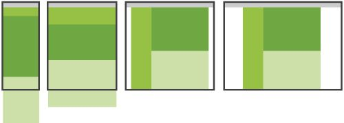 Layout shifter